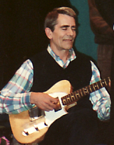 Ed Bickert and Fraser MacPherson Otter Crest, Oregon. May 1989.